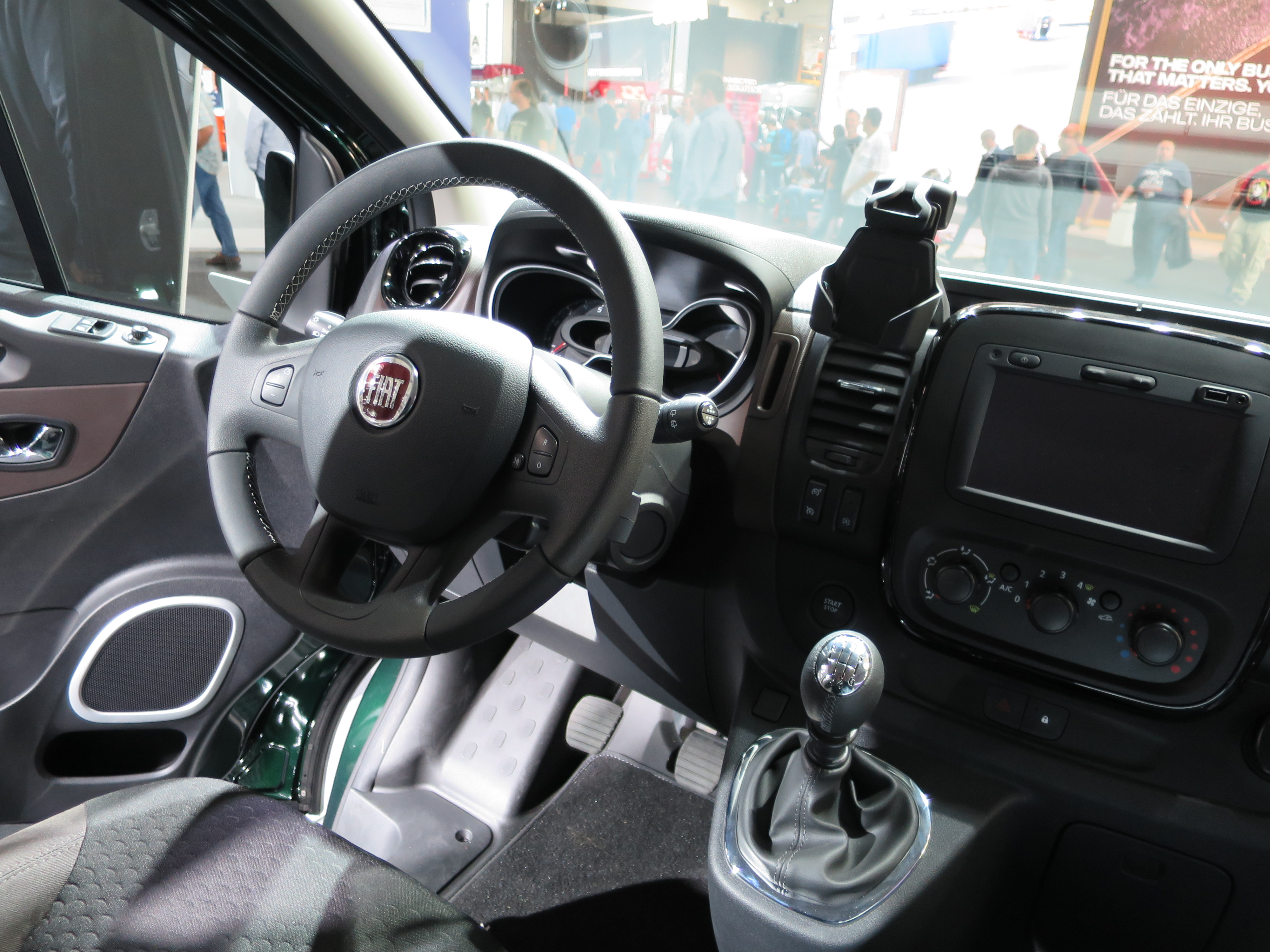 The making of this document was supported by Wikimedia Polska Association, within Wikigrant no. WG 2016-35. Fiat Talento II